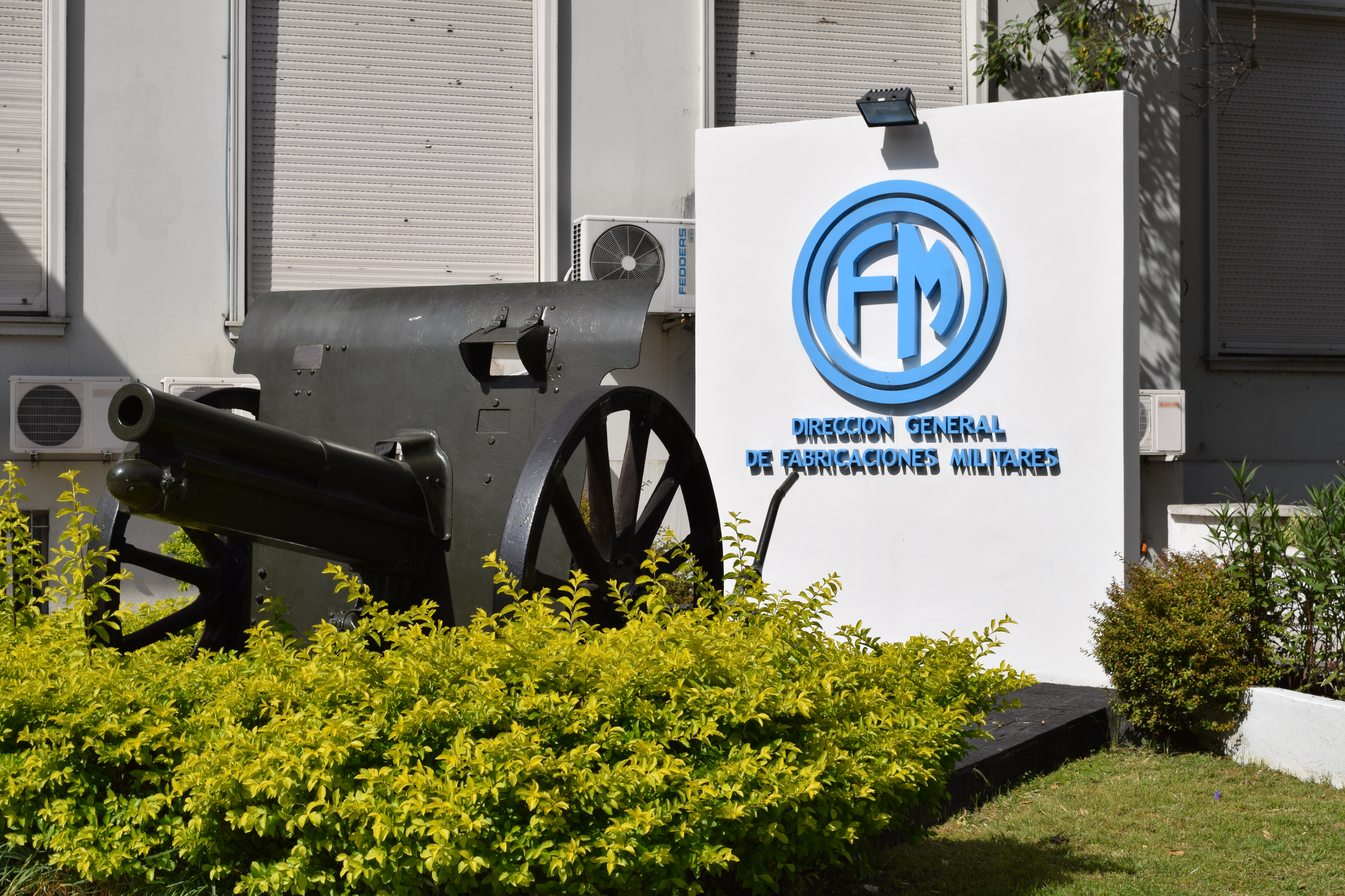 Sign outside Fabricaciones Militares offices.